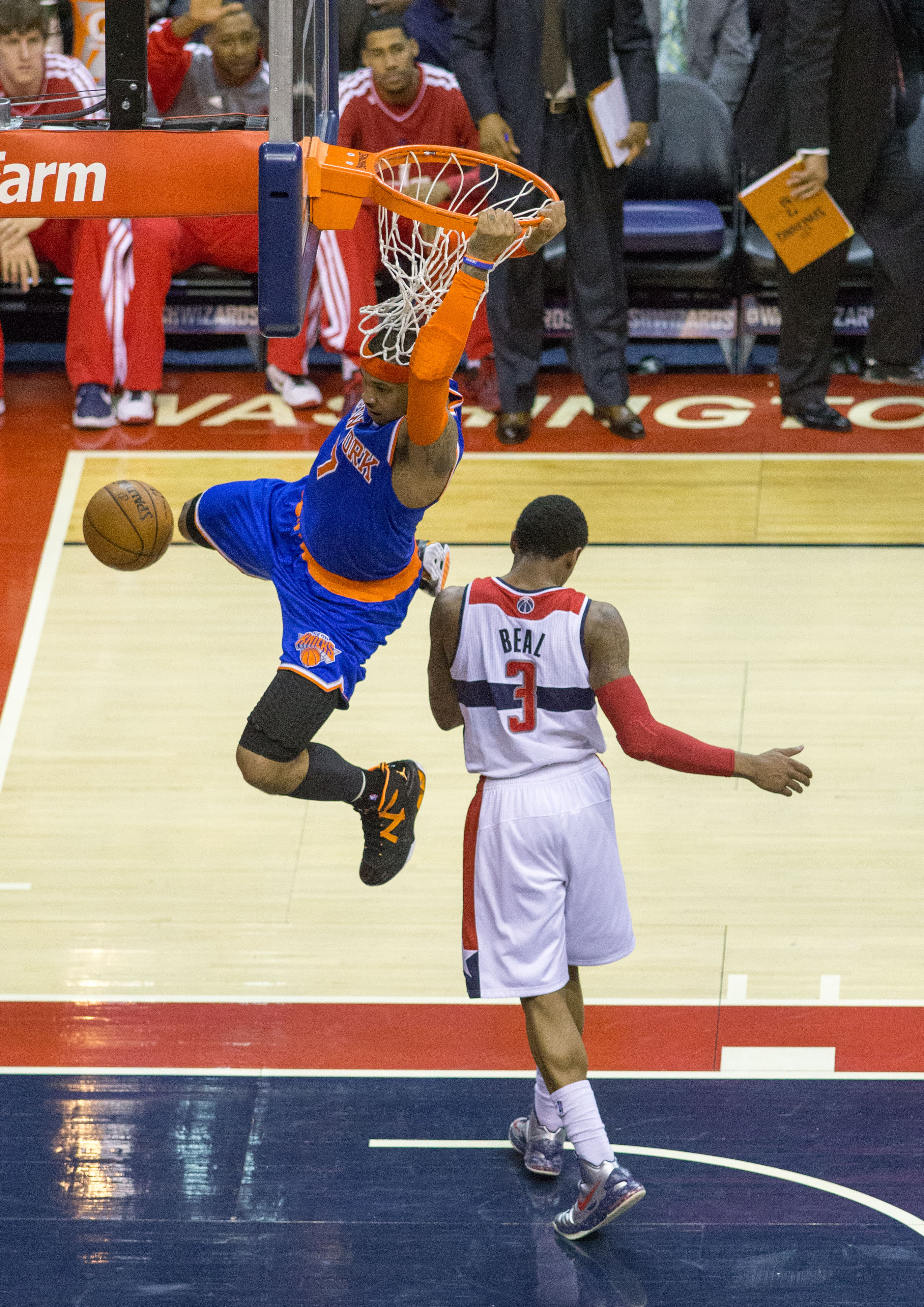 New York Knicks at Washington Wizards March 1, 2013